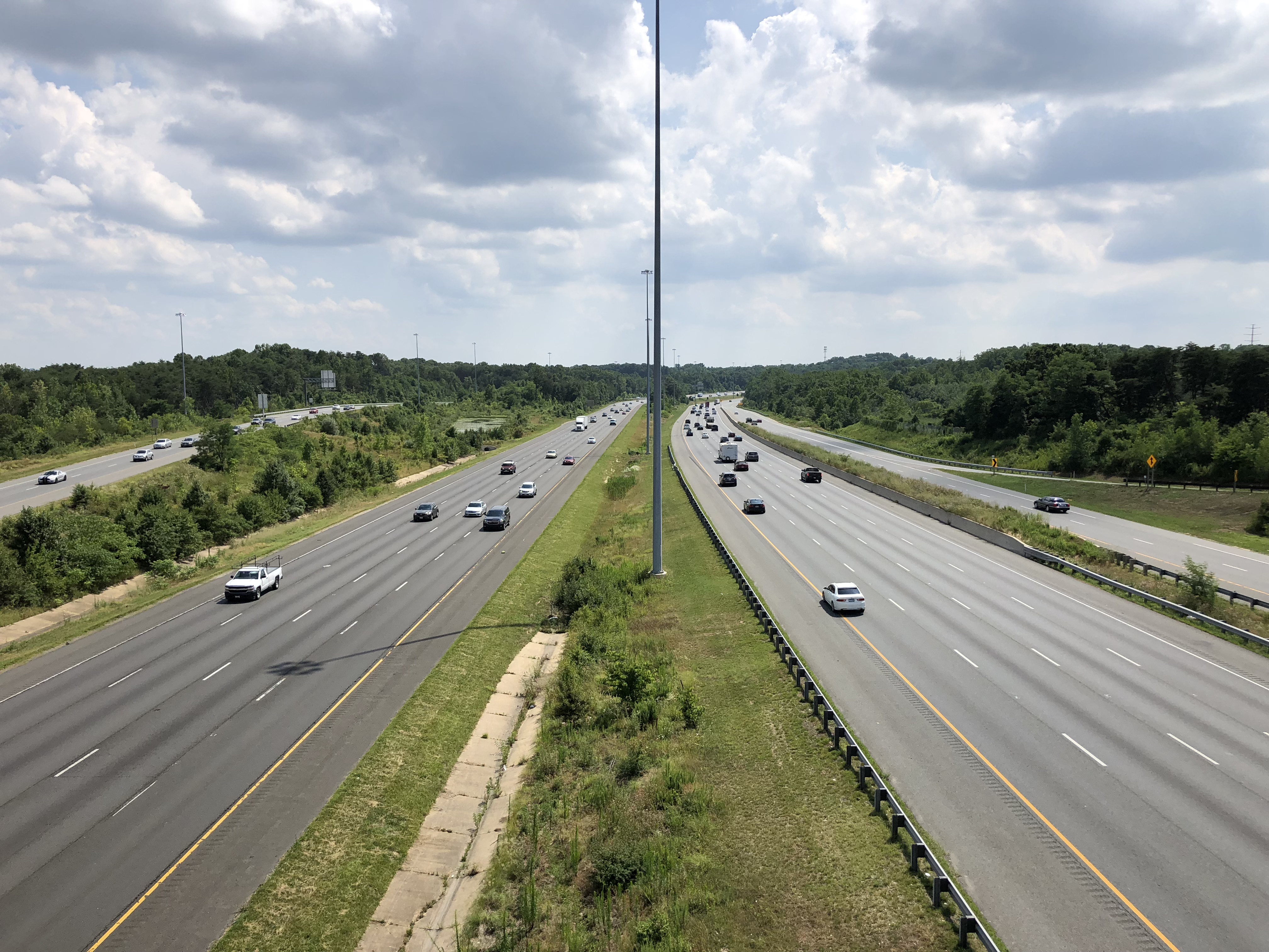 View south along Interstate 95 from the overpass for the ramp from Maryland State Route 200 eastbound to Interstate 95 northbound in Konterra, Prince George's County, Maryland